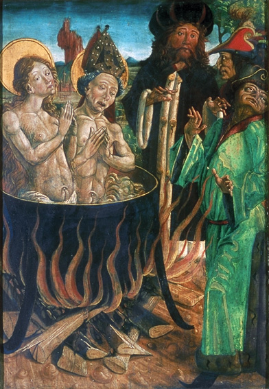 The Martyrdom of Cyprian and Justina